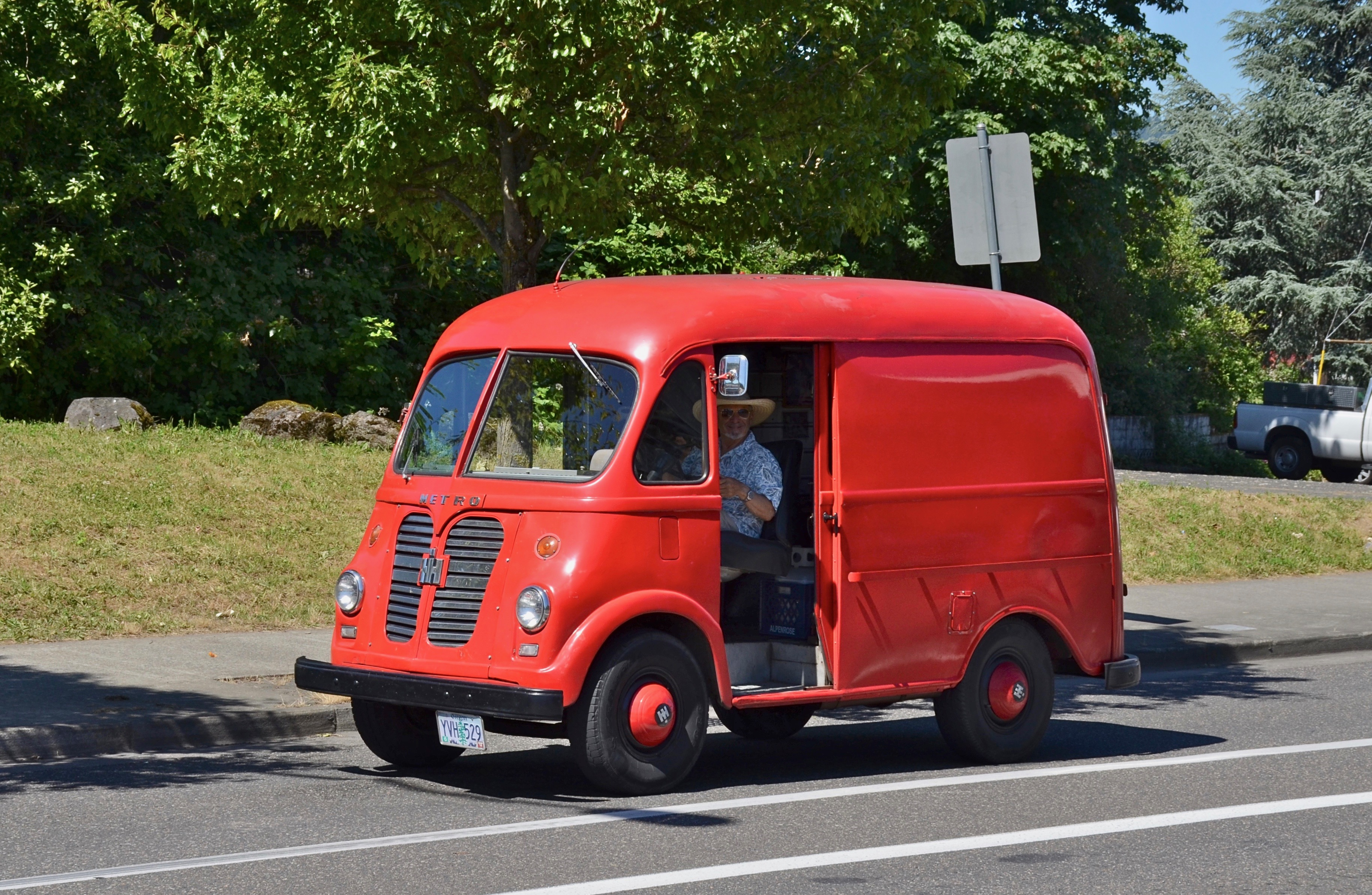 A preserved and restored 1958 International Metro Van (made by International Harvester), in Portland, Oregon, southbound on Interstate Avenue near its southern end (just north of the Steel Bridge).